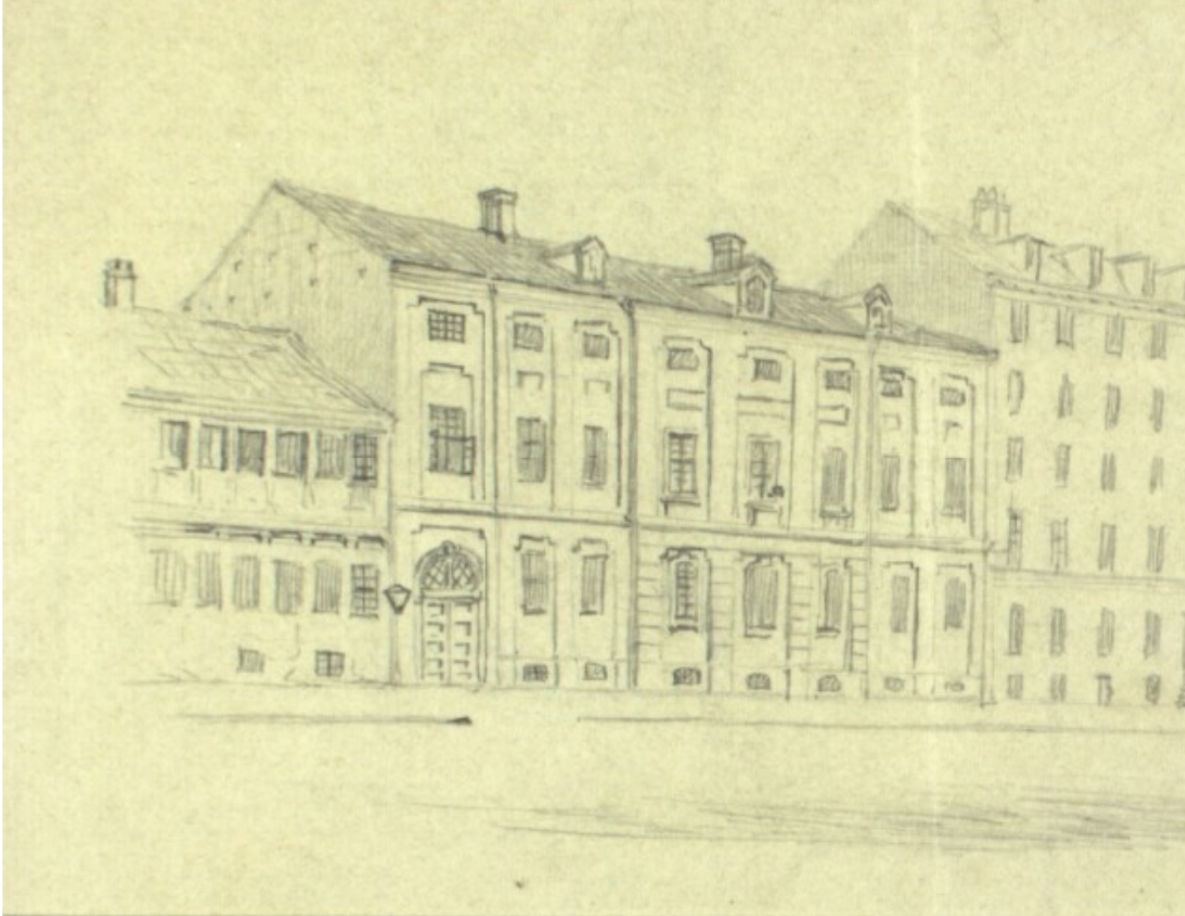 Drawing of Ny Kongensgade 6 in Copenhagen, Denmark. The current building at No. 10 from 1902-03 has not yet been built.